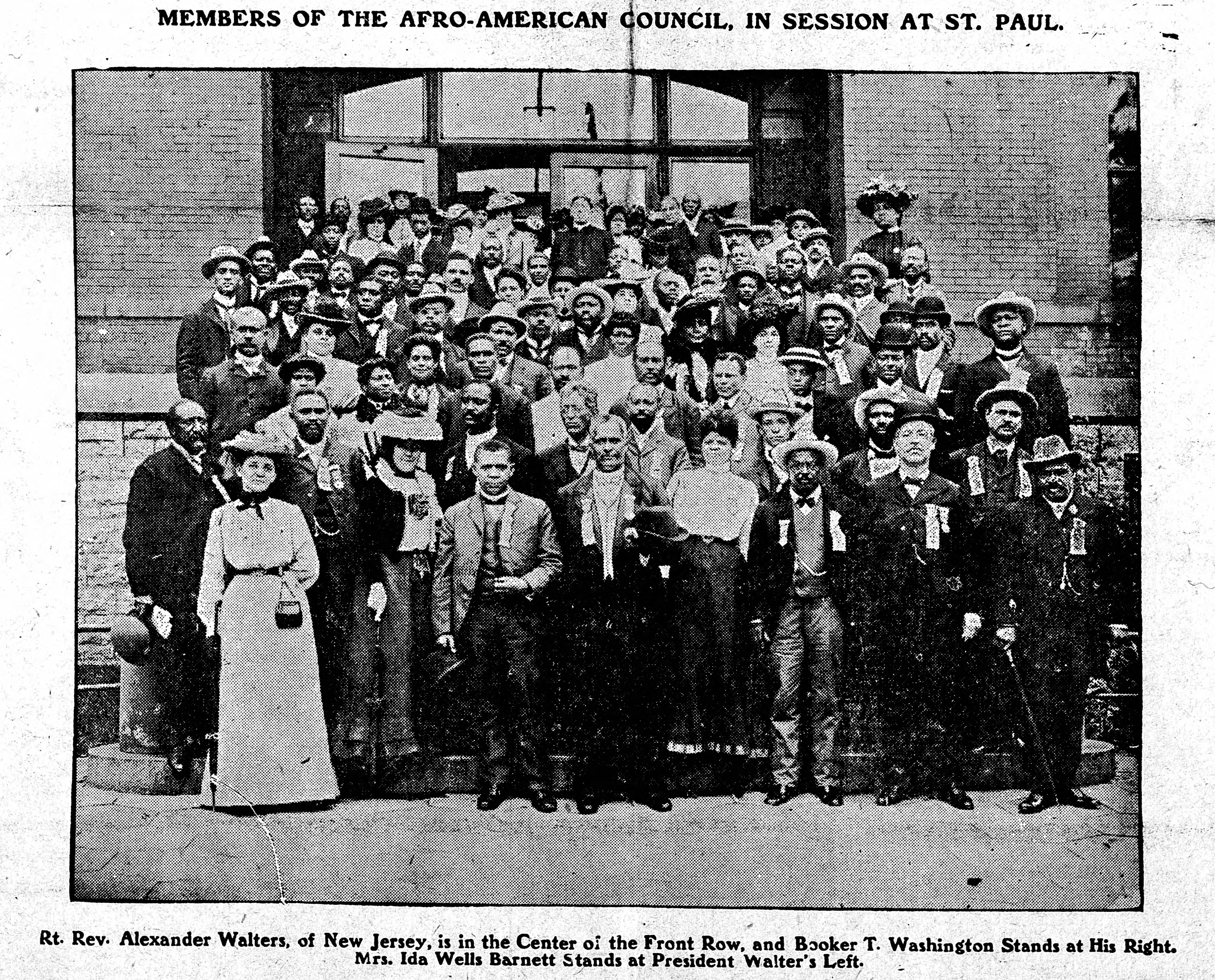 Afro-American Council group photo in 1902. Identification of Booker T. Washington, Alexander Walters, and Ida B. Wells is in source. Identification of Timothy Thomas Fortune, W. E. B. Du Boise, and Emmett Jay Scott are from, Nelson, Paul. How a St. Paul meeting of the National Afro-American Council reshaped the civil rights movement for decades, MinnPost (Minneapolis, Minnesota) 02/17/15, accessed November 7, 2016 at Identification of William Henry Steward is from, Justesen, Benjamin R. Broken Brotherhood: The Rise and Fall of the National Afro-American Council. SIU Press, 2008., p82